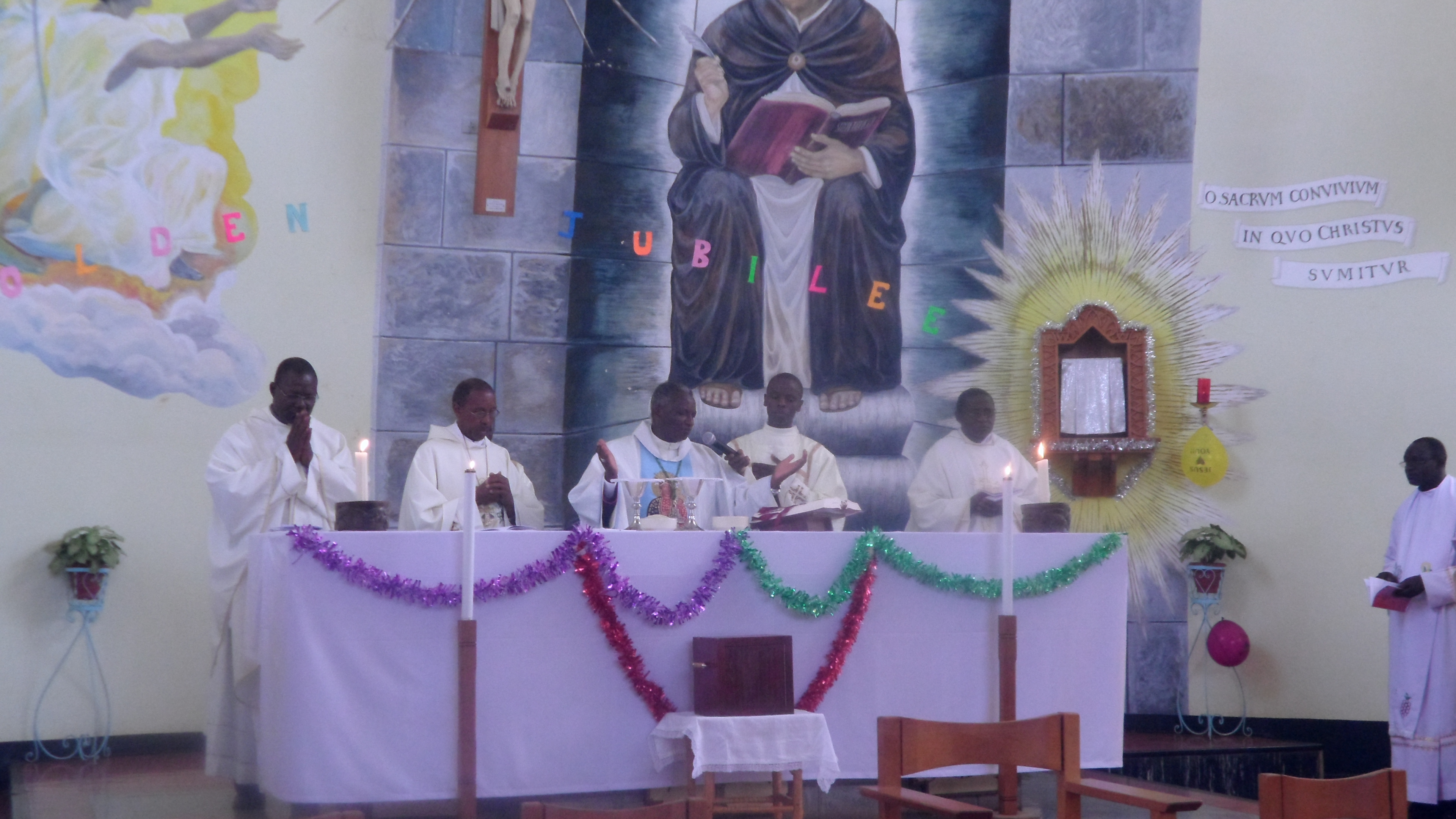 Faamily Day at St. Thomas Aquinas Seminary, Nairobi